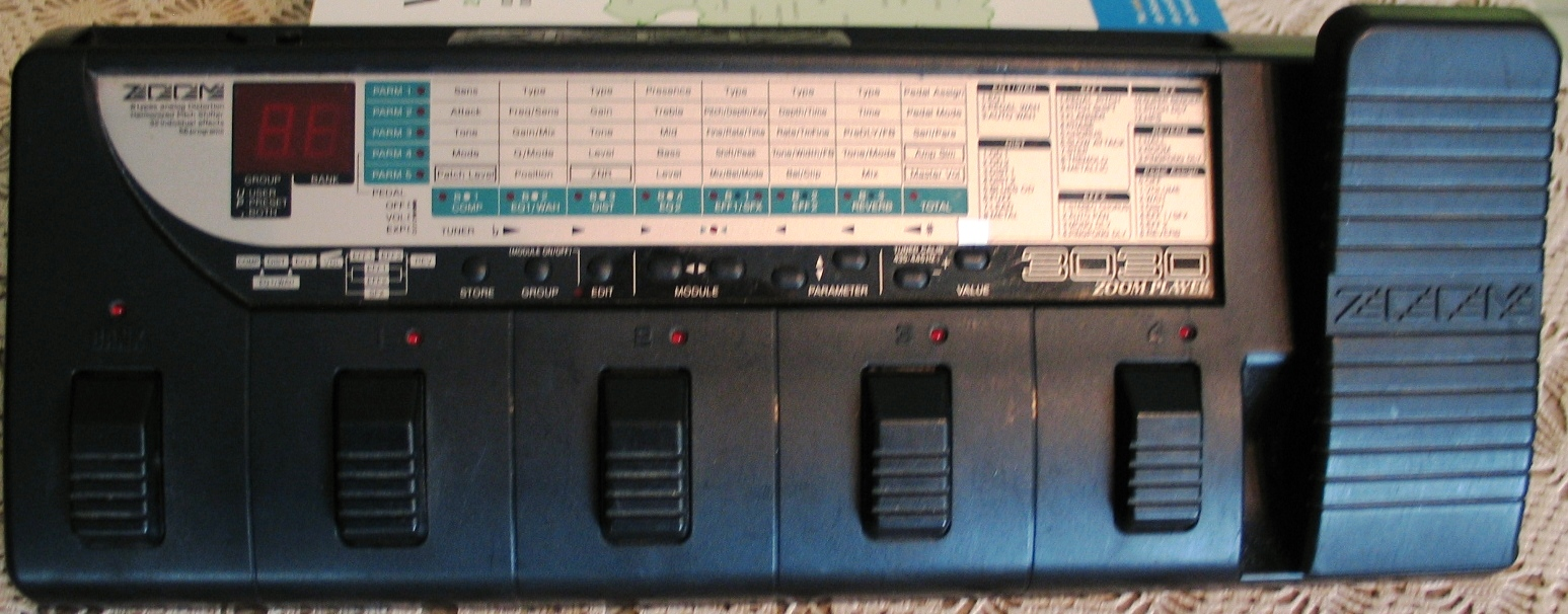 Zoom 3030 foot switch